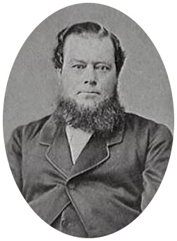 Richard Driver cricket administrator and politician from New South Wales